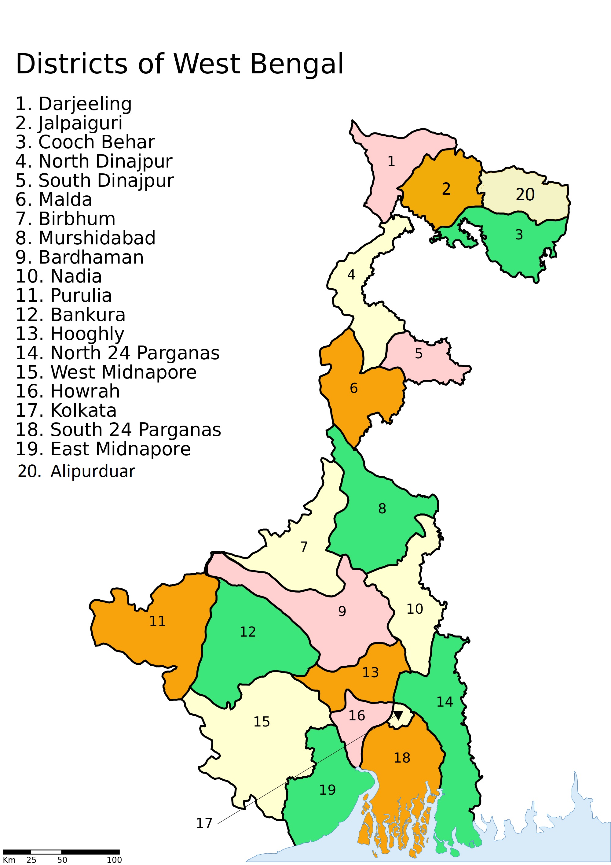 List of all district in West Bengal